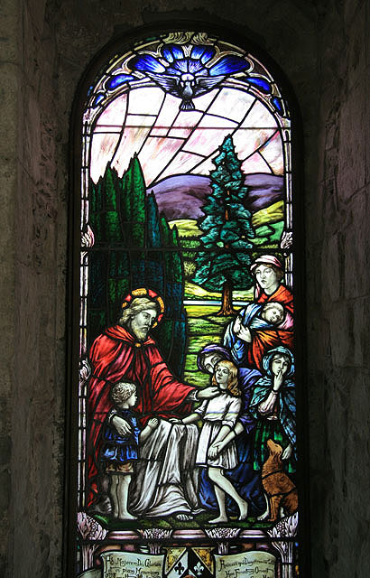 A stained glass window at Stobo Parish Church